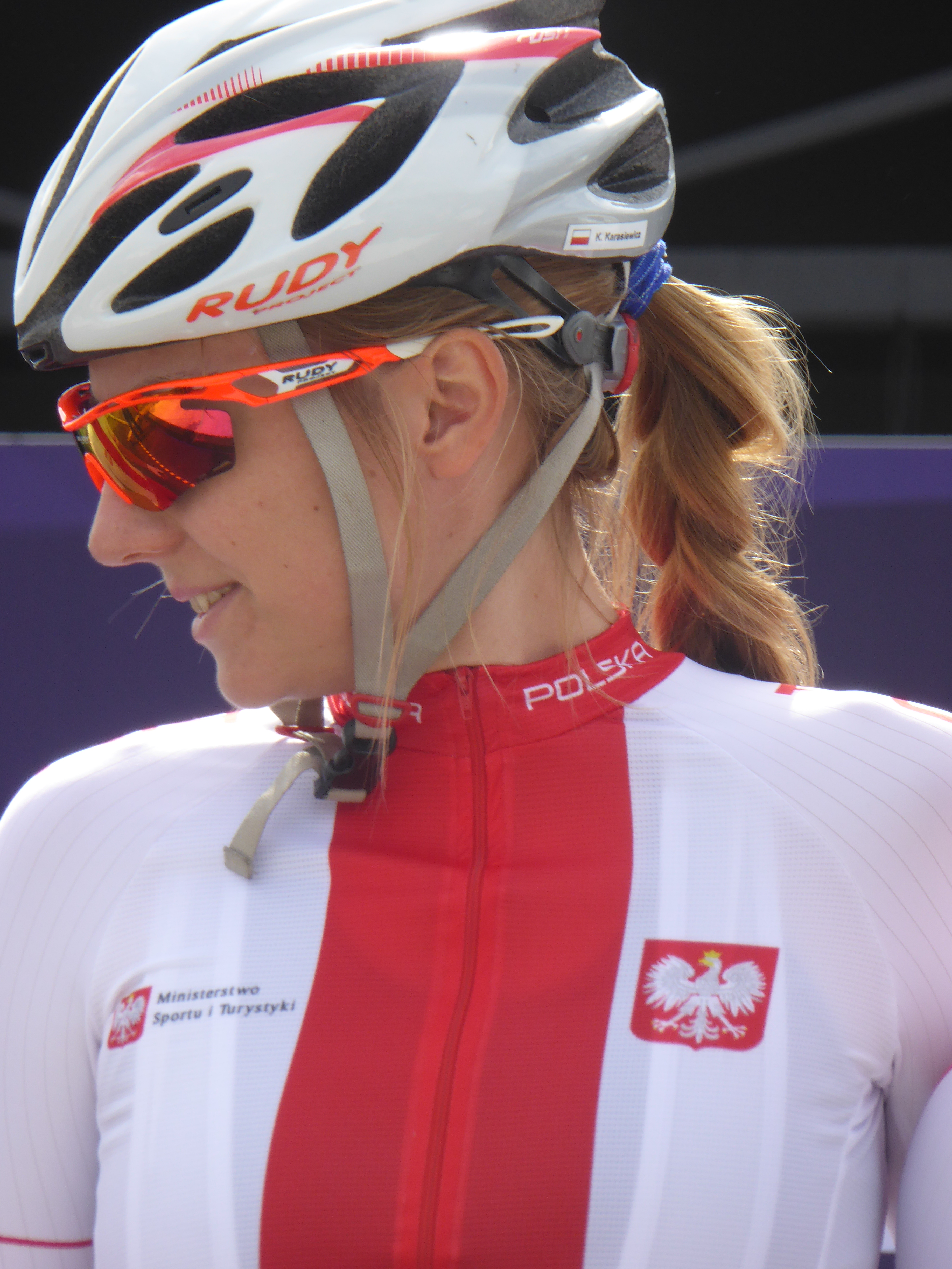 Karolina Karasiewicz (Poland), prior to the women's road race at the 2018 UEC European Road Cycling Championships in Glasgow.